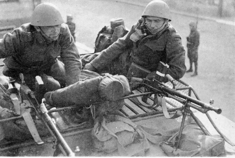 Czechoslovak army action against terrorists sudeten German